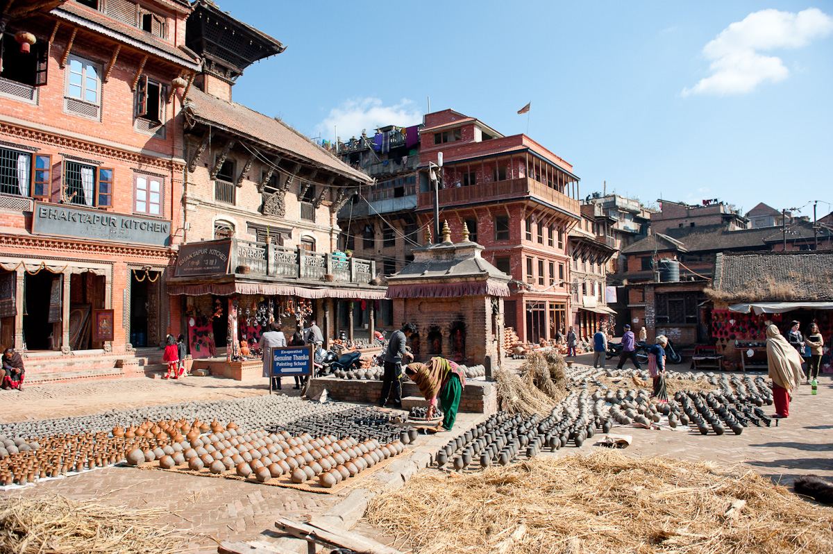 Nepal